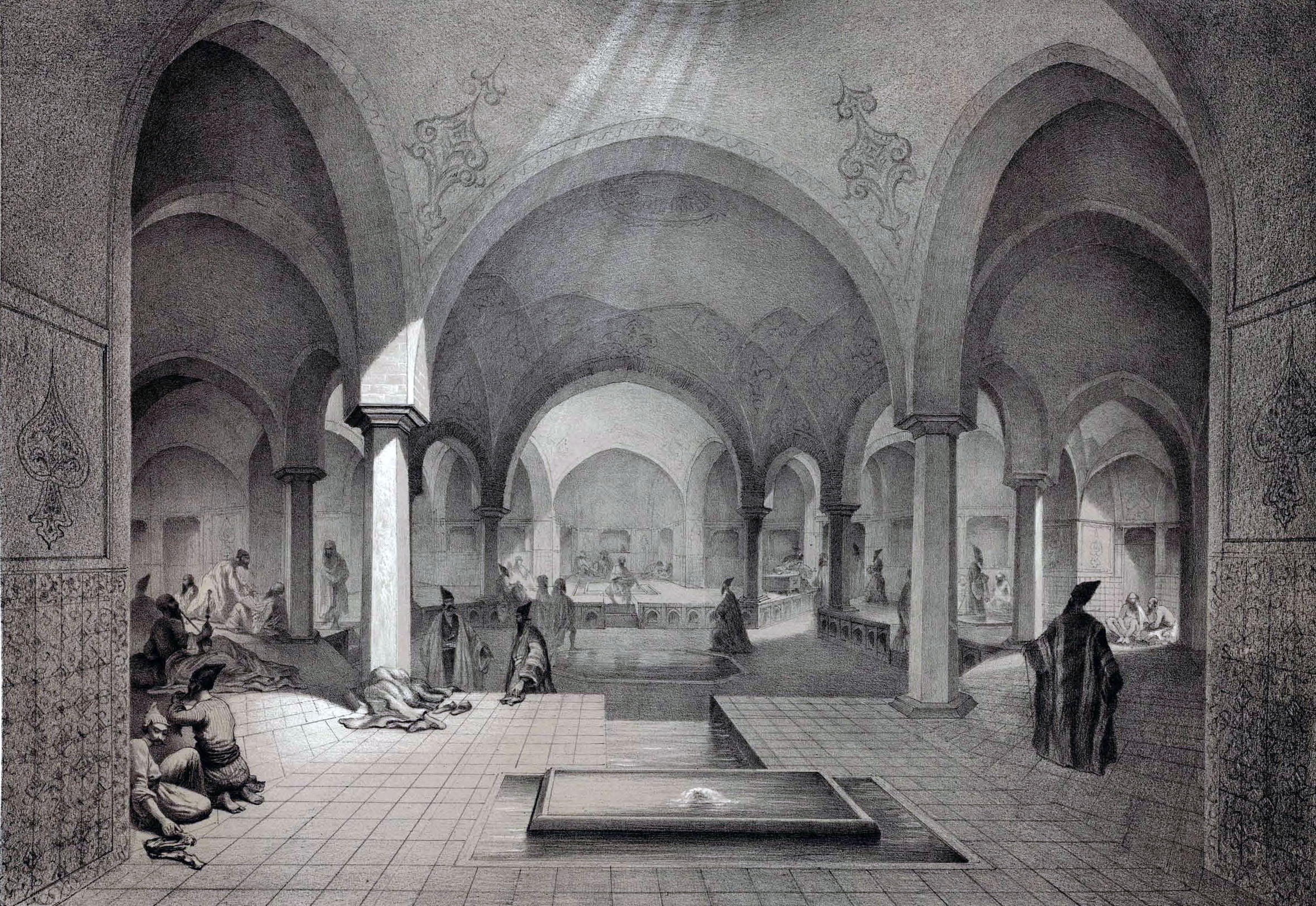 Interior bath Kashan